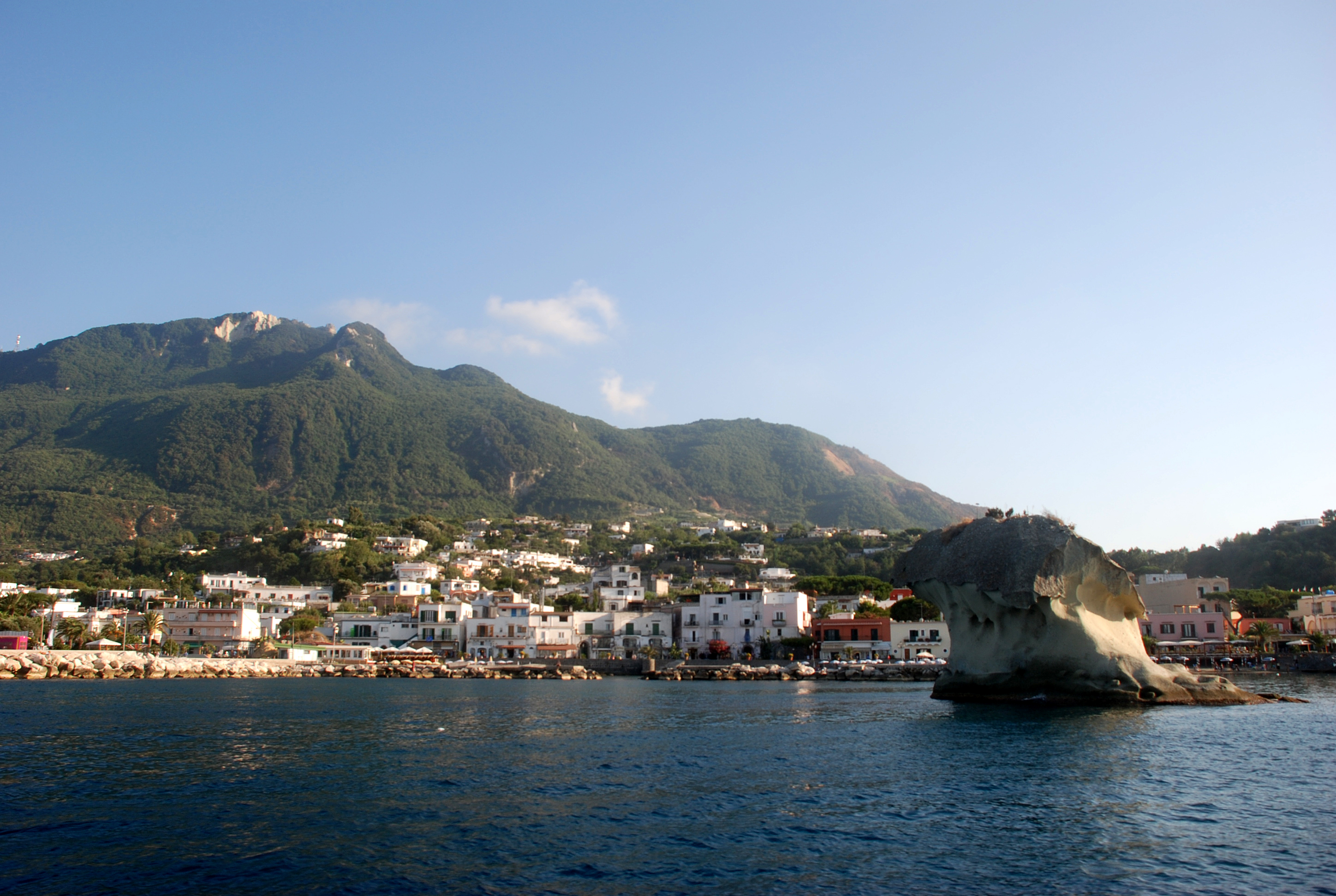 Lacco Ameno, Ischia, Italy. Monte Epomeo in the background.